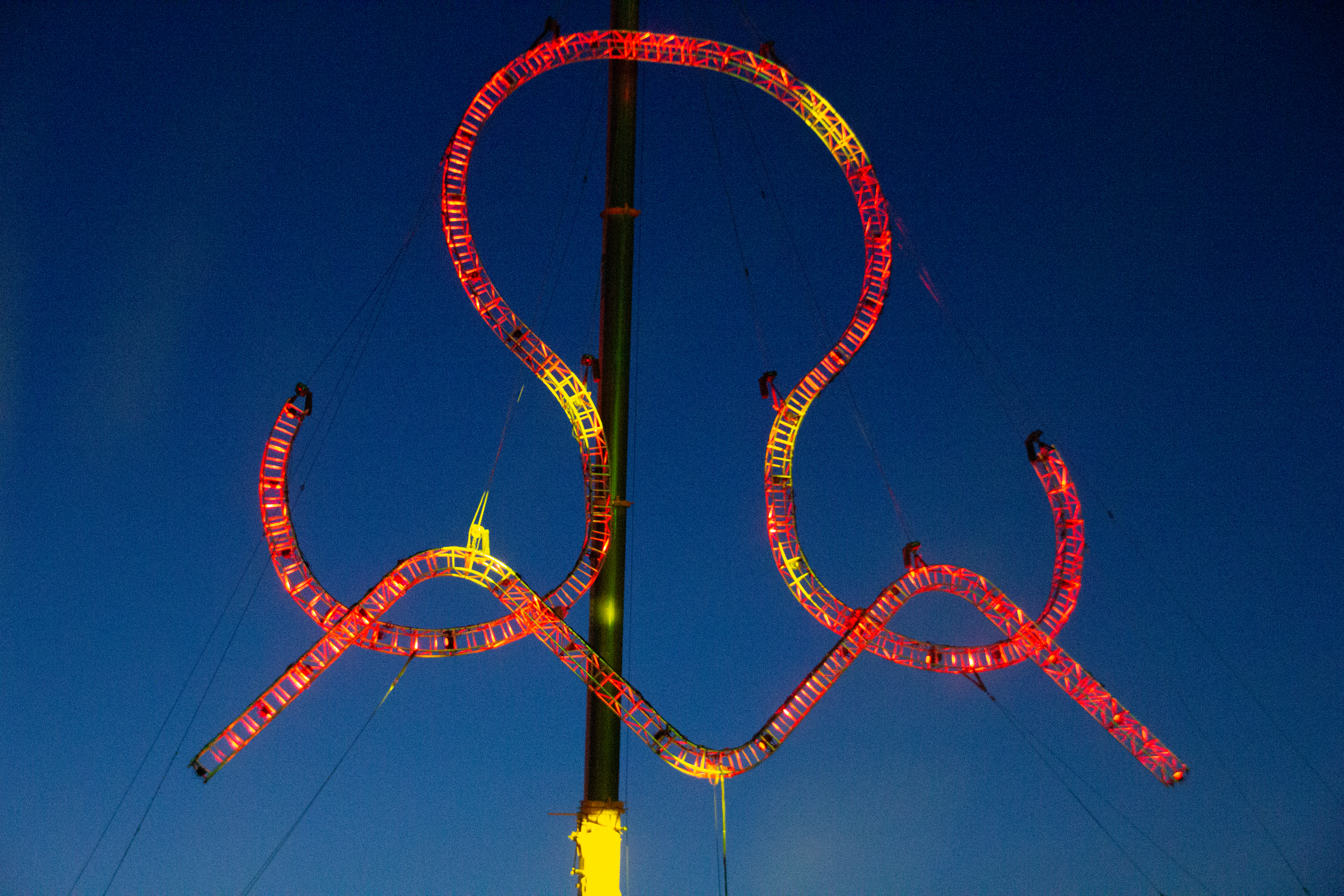 illuminated sign of SMS 2018